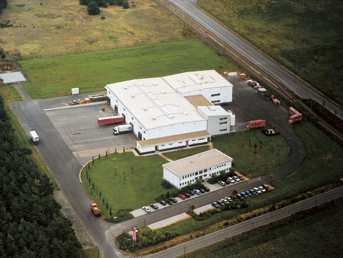 Photo of the Keimfarben factory in Alteno, Germany